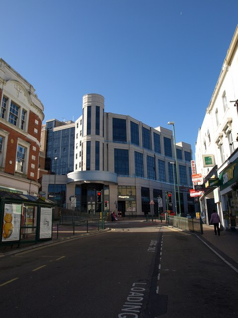 Nova building, Bournemouth This new building is a redevelopment of the former C&A store on Commercial Road, with shops on the ground floor and offices on the first. Not sure about the second floor but there is a roof garden. The turning to the left on this side of it is Terrace Road.